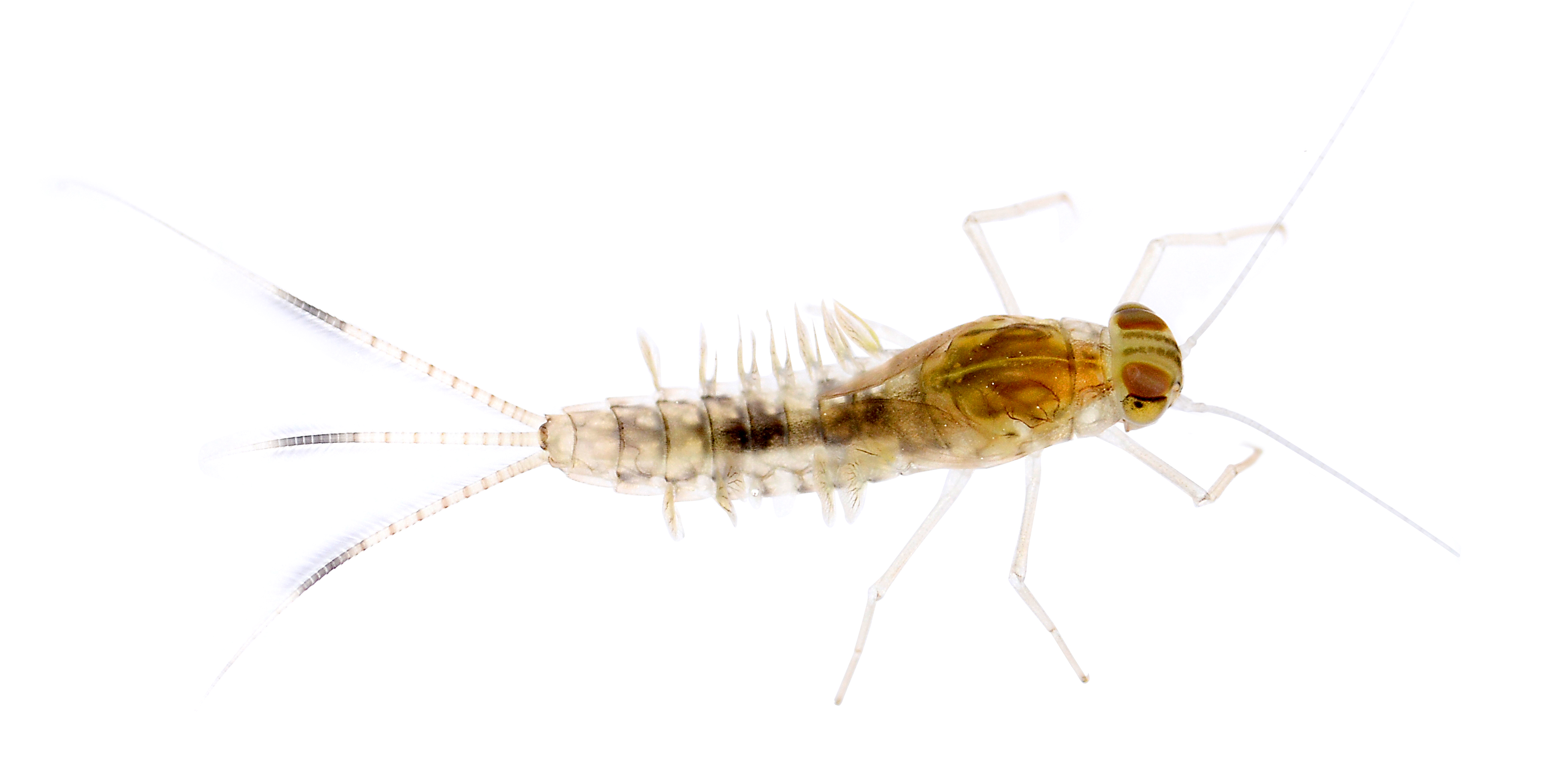 A male Cloeon dipterum nymphe.